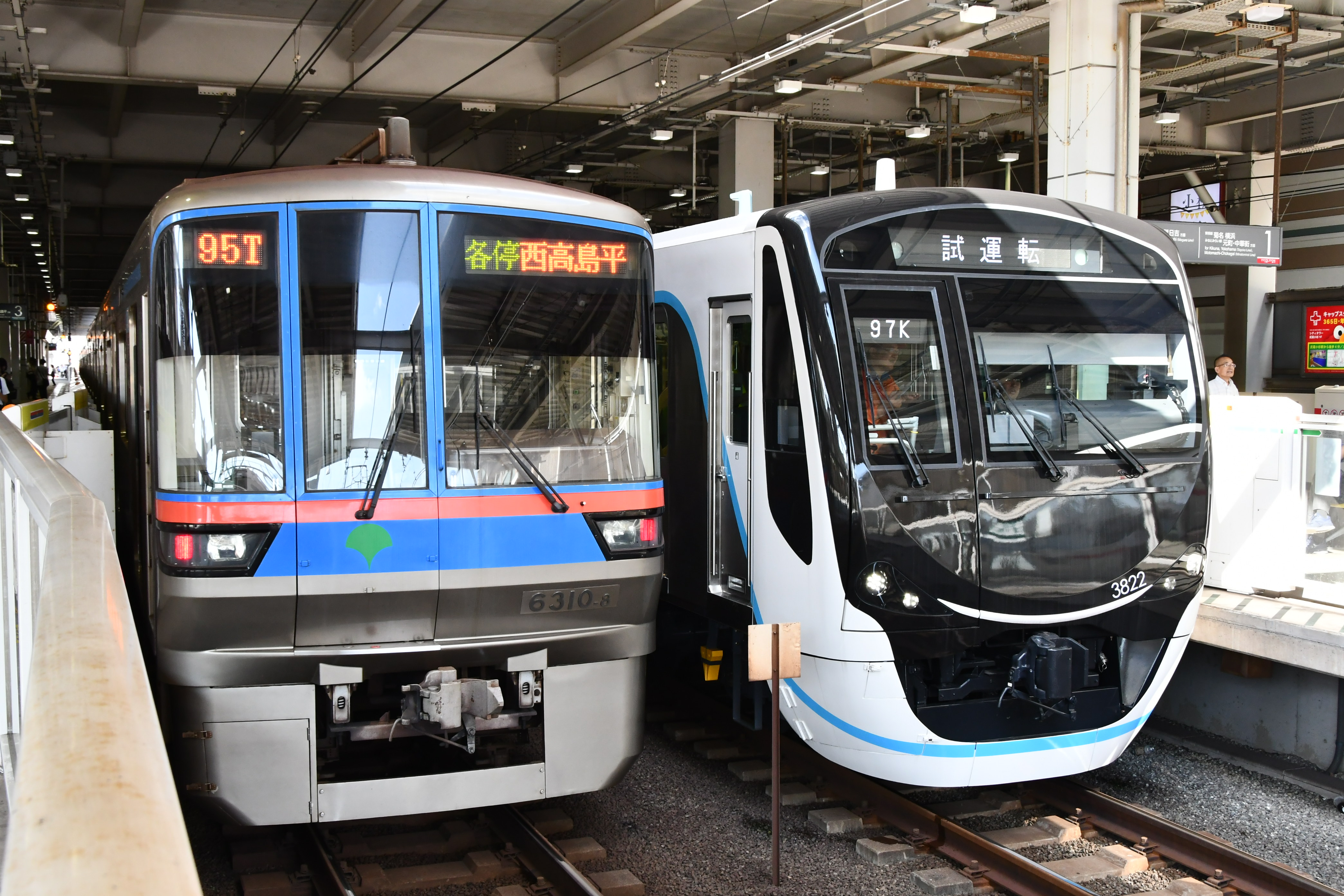 The Toei 6300 series EMU set 6310 and Tōkyū series 3020 EMU set 3122(the train's number on this pic is 3822) stopping at Musashi-Kosugi Station in Nakahara-ku, Kawasaki, Japan